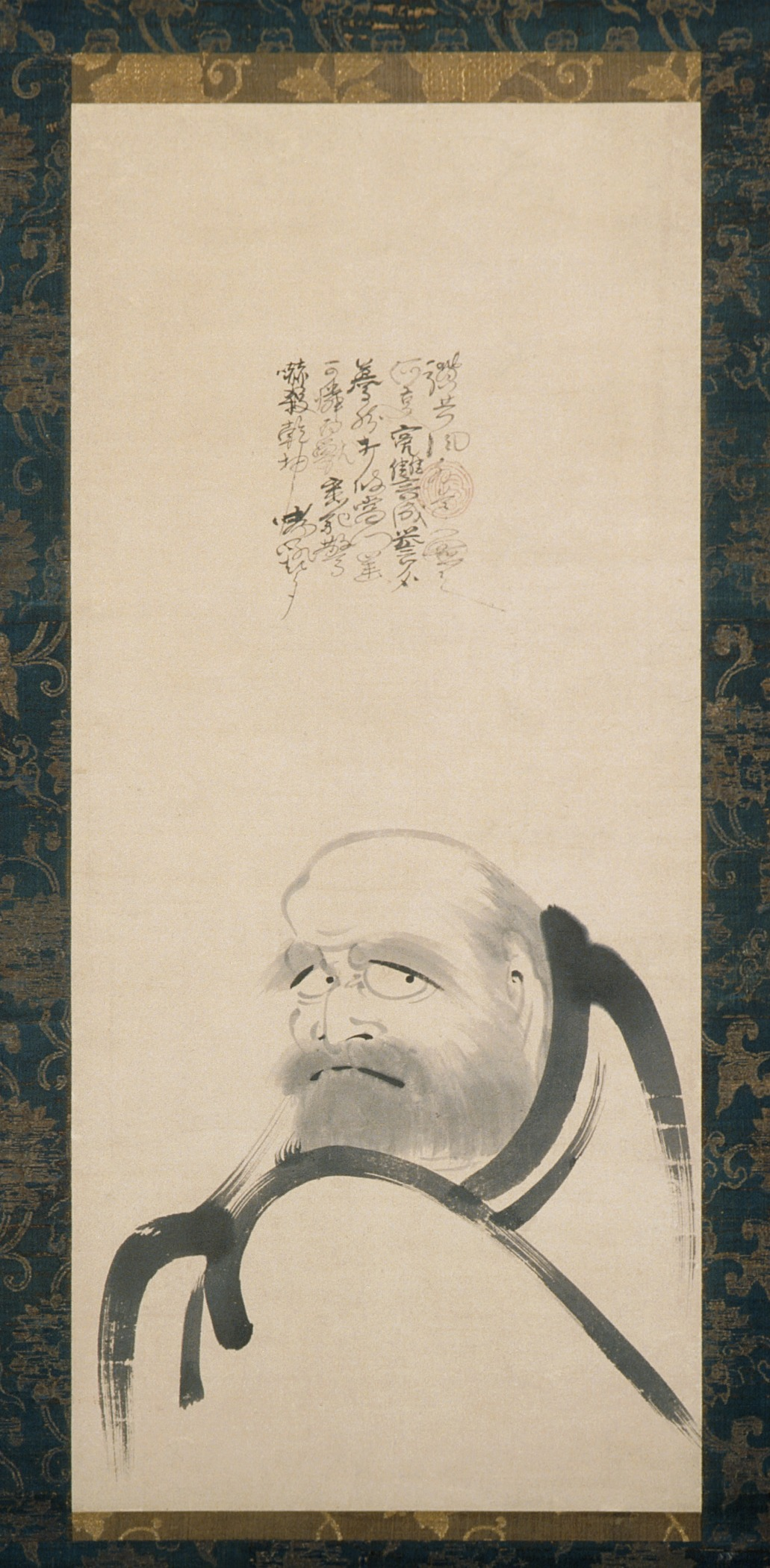 Japan, first half of 17th century Paintings; scrolls Hanging scroll; ink on paper Gift of Hans and Margot Ries (AC1997.154.1) Japanese Art